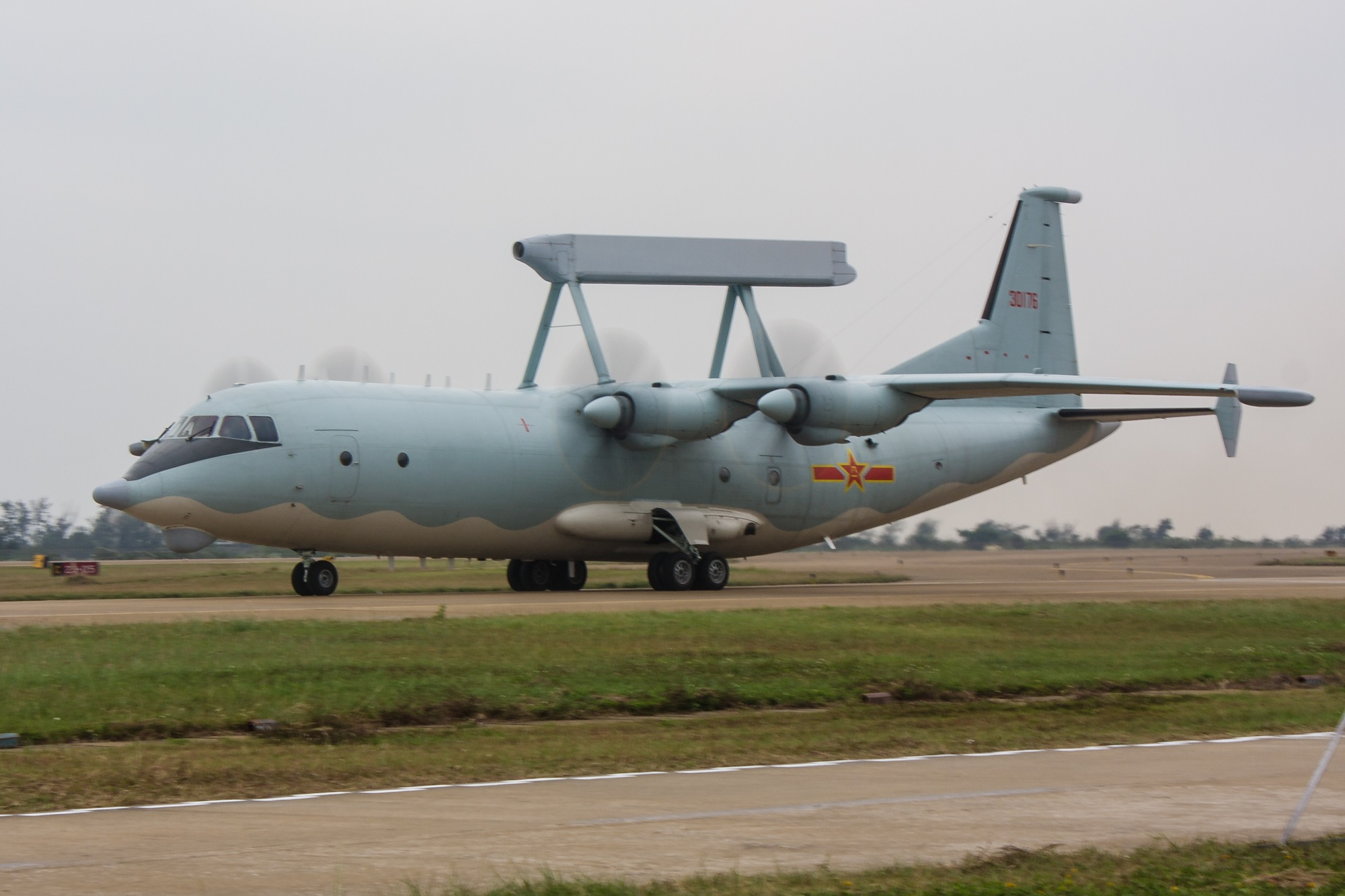 A Shaanxi KJ-200 AEW at Zhuhai Airshow 2012